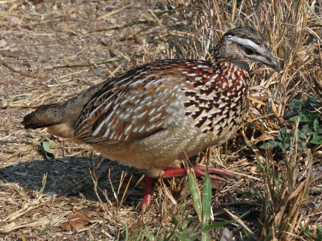 Crested Francolin (Dendroperdix sephaena) - South Africa